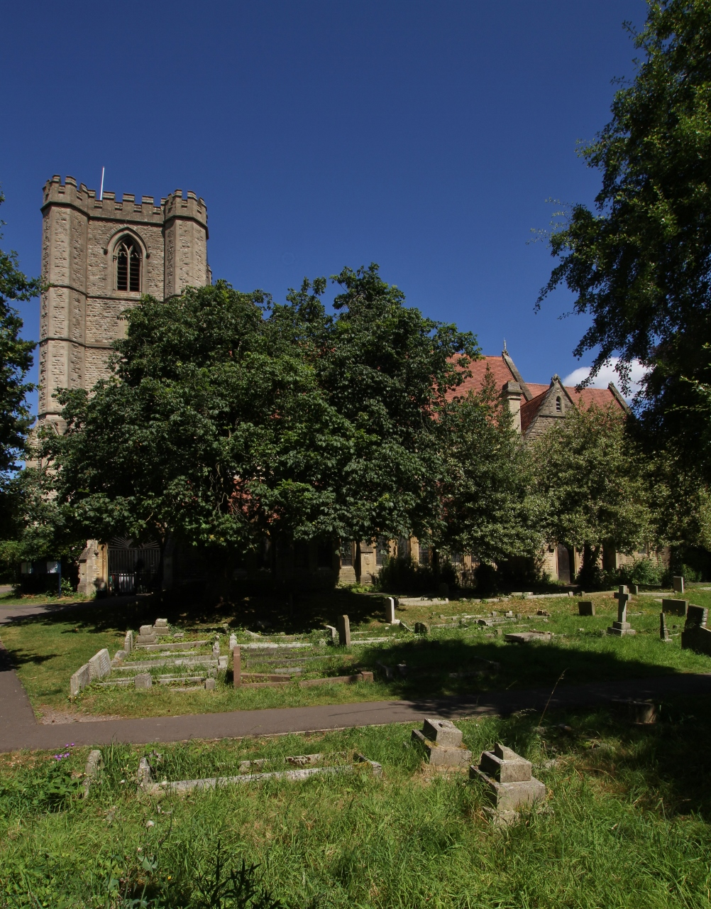 SS Mary and John parish church, Oxford, England, seen from the south